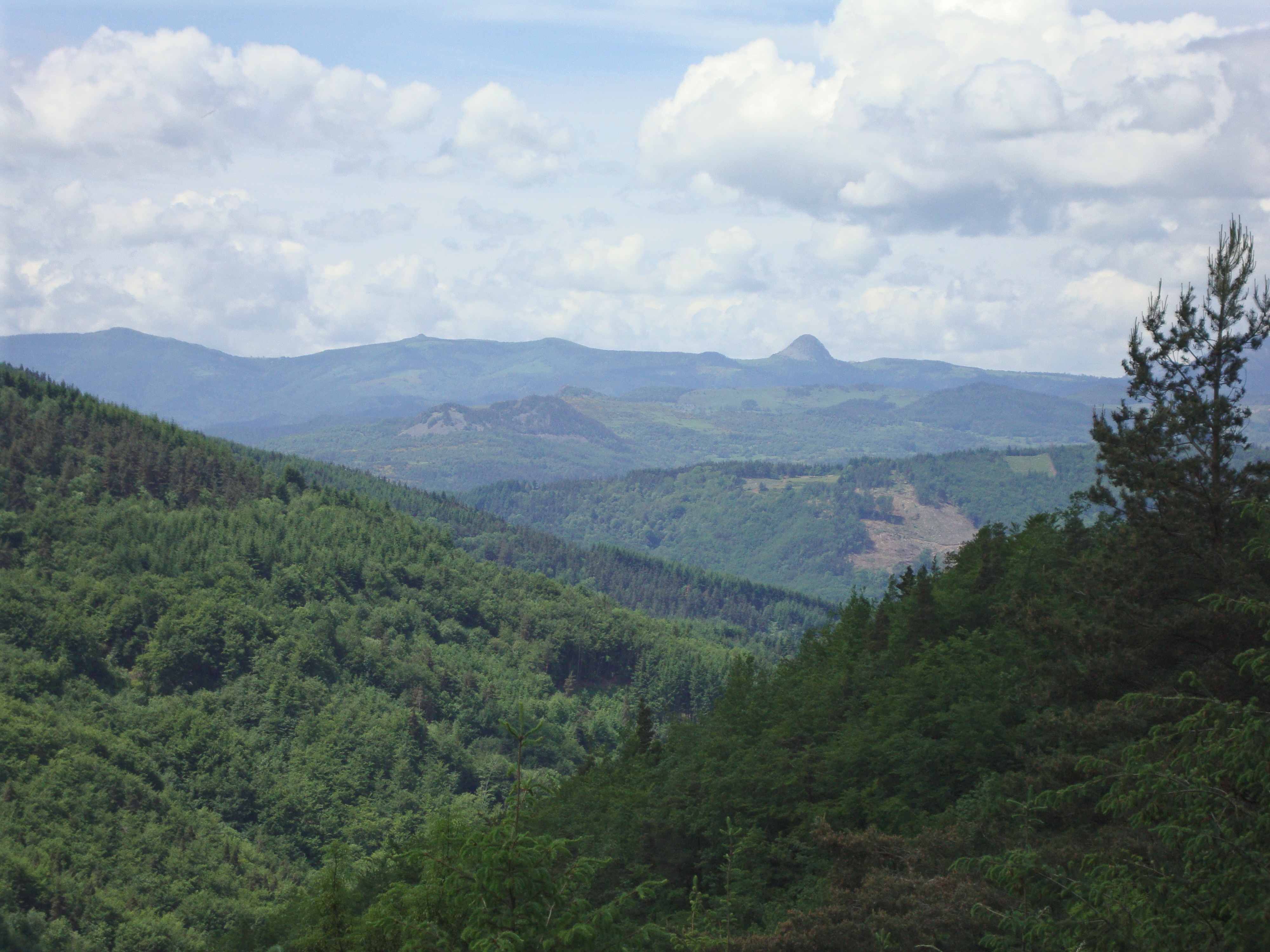 St.Agrève (Ardêche, Fr) landscape.